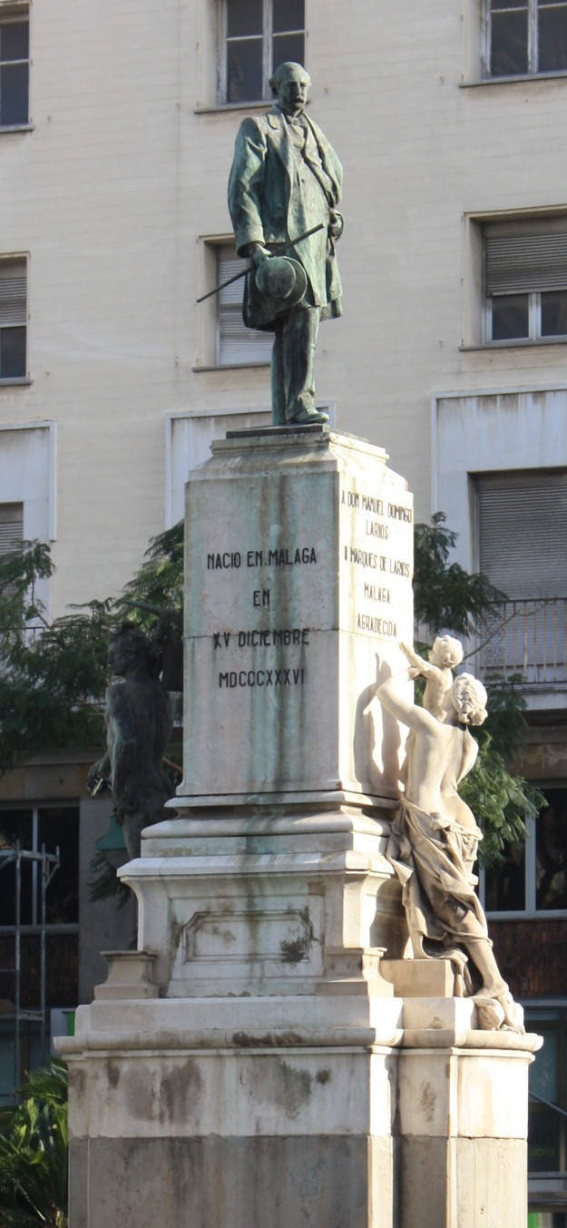 Málaga, monument of Marqués de Larios